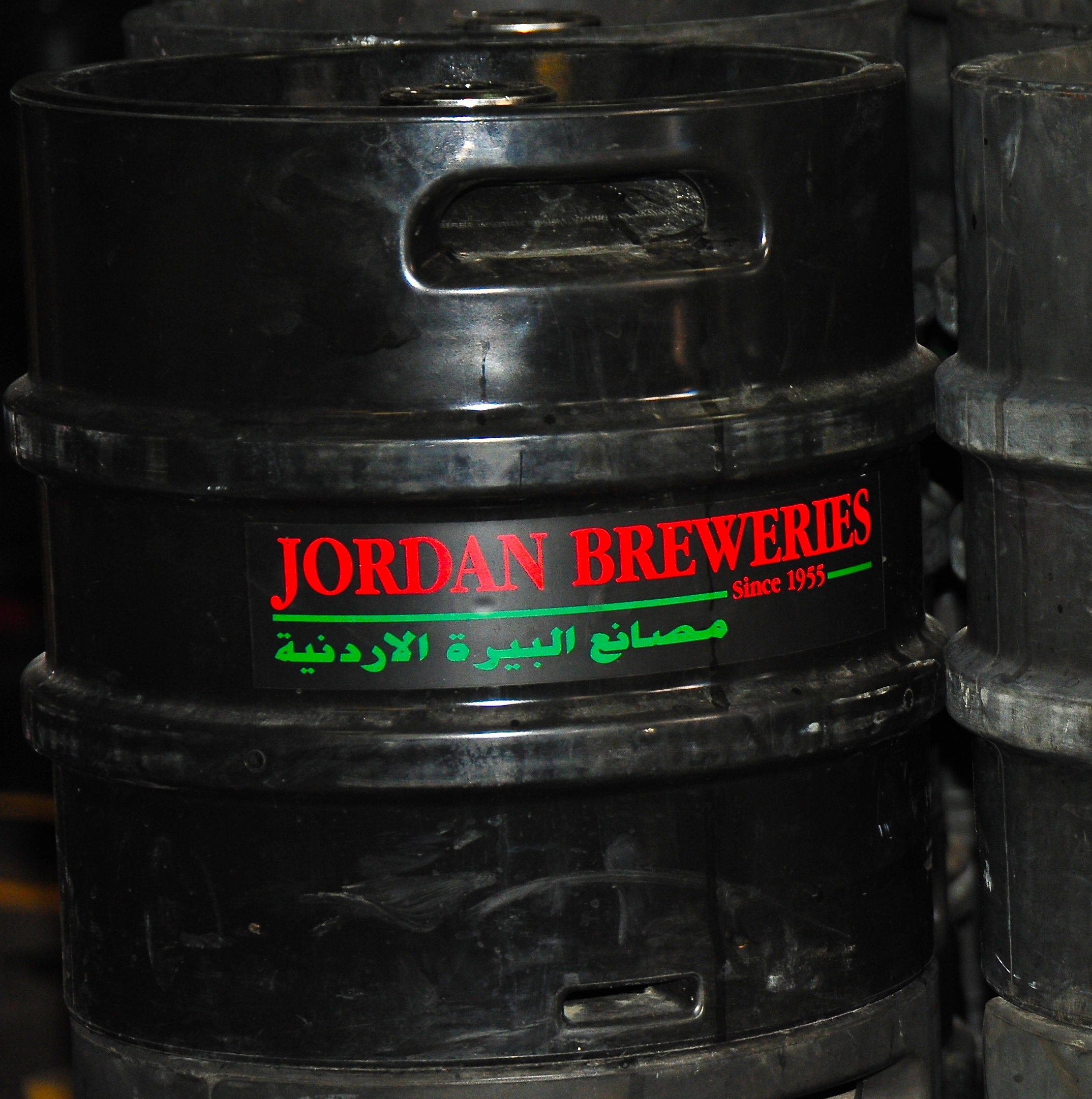 شركة مصانع البيرة العربية المساهمة المحدودة، وشركة مصانع البيرة الأردنية A Brewery in Jordan